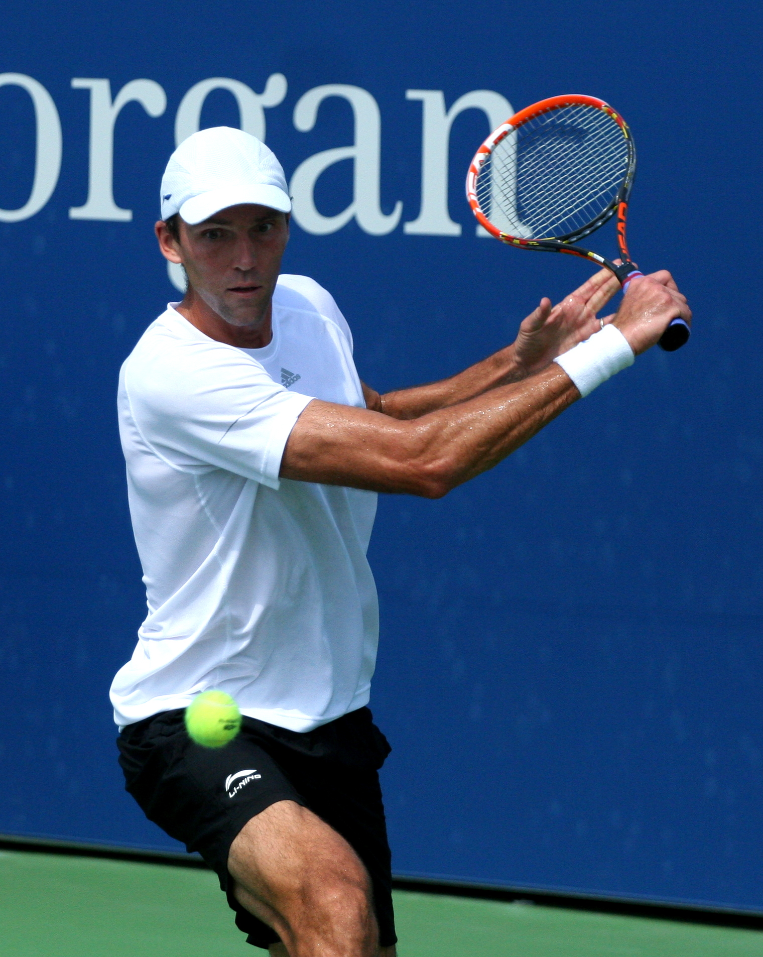 U.S. Open Tuesday, Aug. 26, 2014